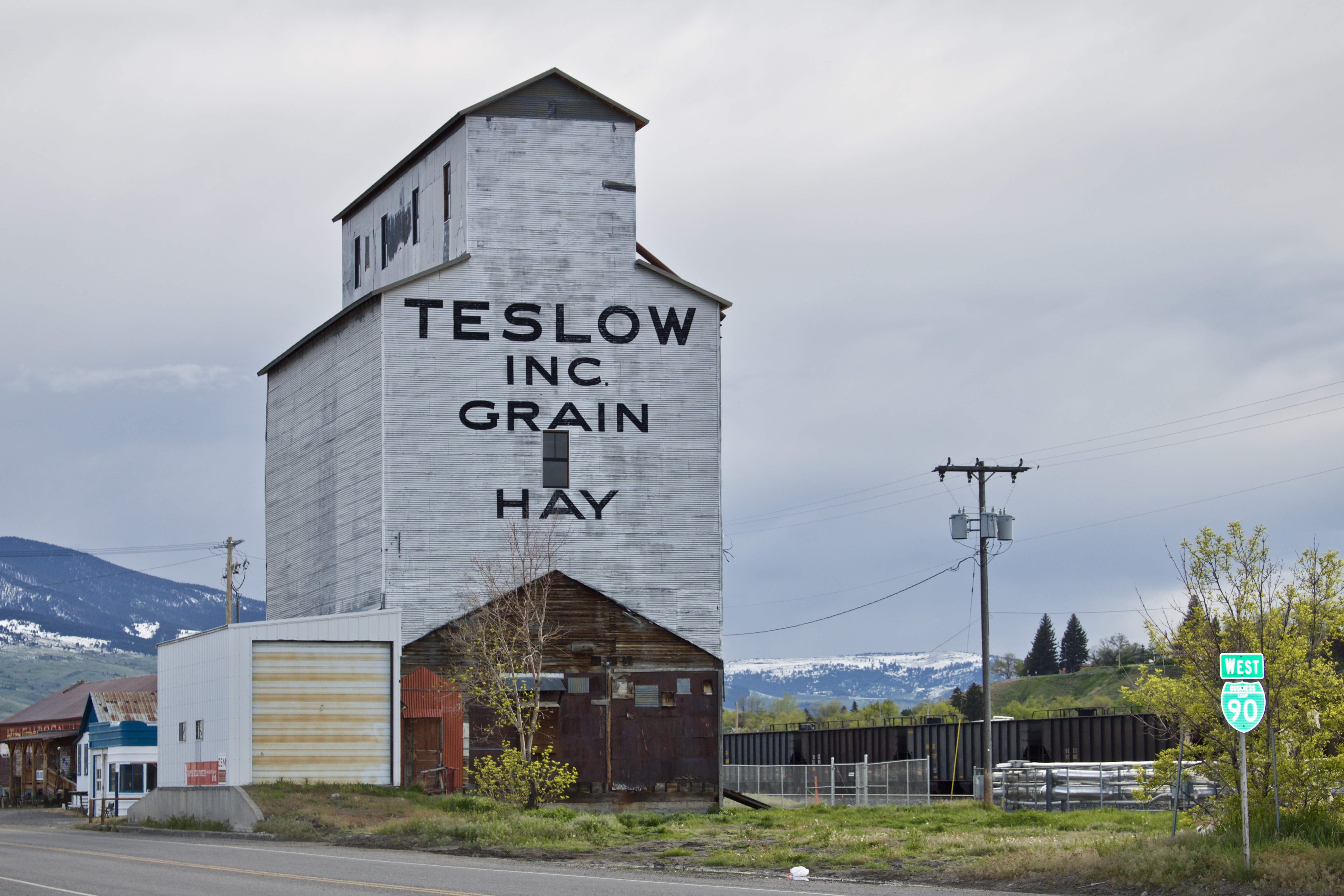 Historic Teslow Grain Elevator, between Park Street and the railroad tracks, Livingston, Montana